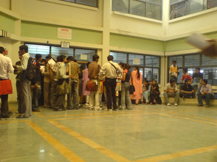 Student Section of VGEC [1]